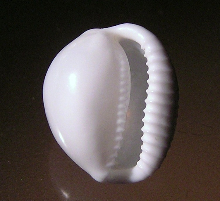 Triviella millardi (Cate, 1979) , a cowrie from the family Triviidae; South Africa